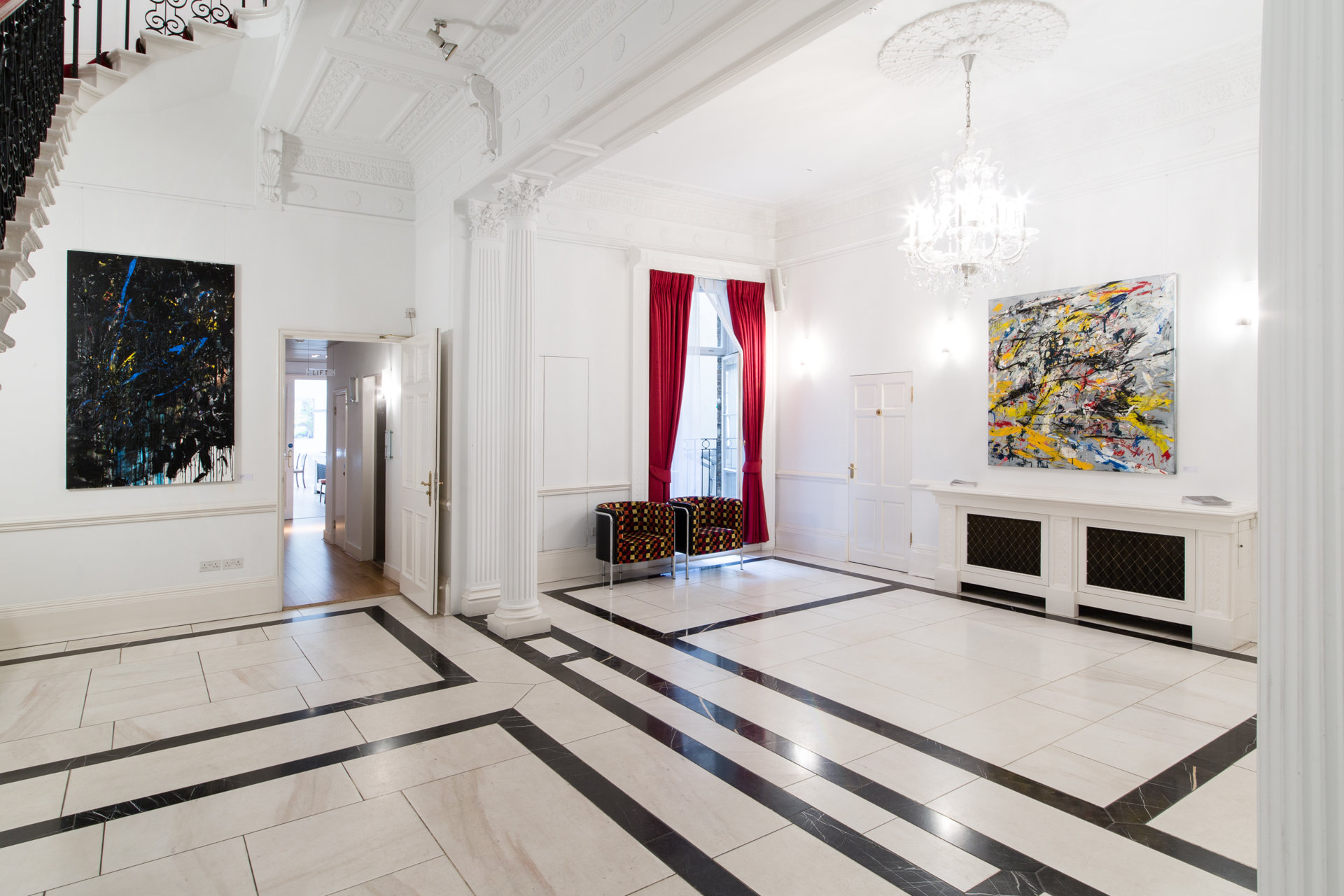 An installation shot of artist Frances Aviva Blane's paintings at the German Ambassadors Residence 34 Belgrave Square, London SW1X 1QB by photographer Richard Ivey